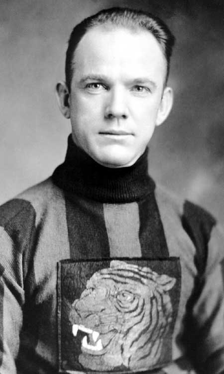 Mickey Roach of the 1921-22 Hamilton Tigers